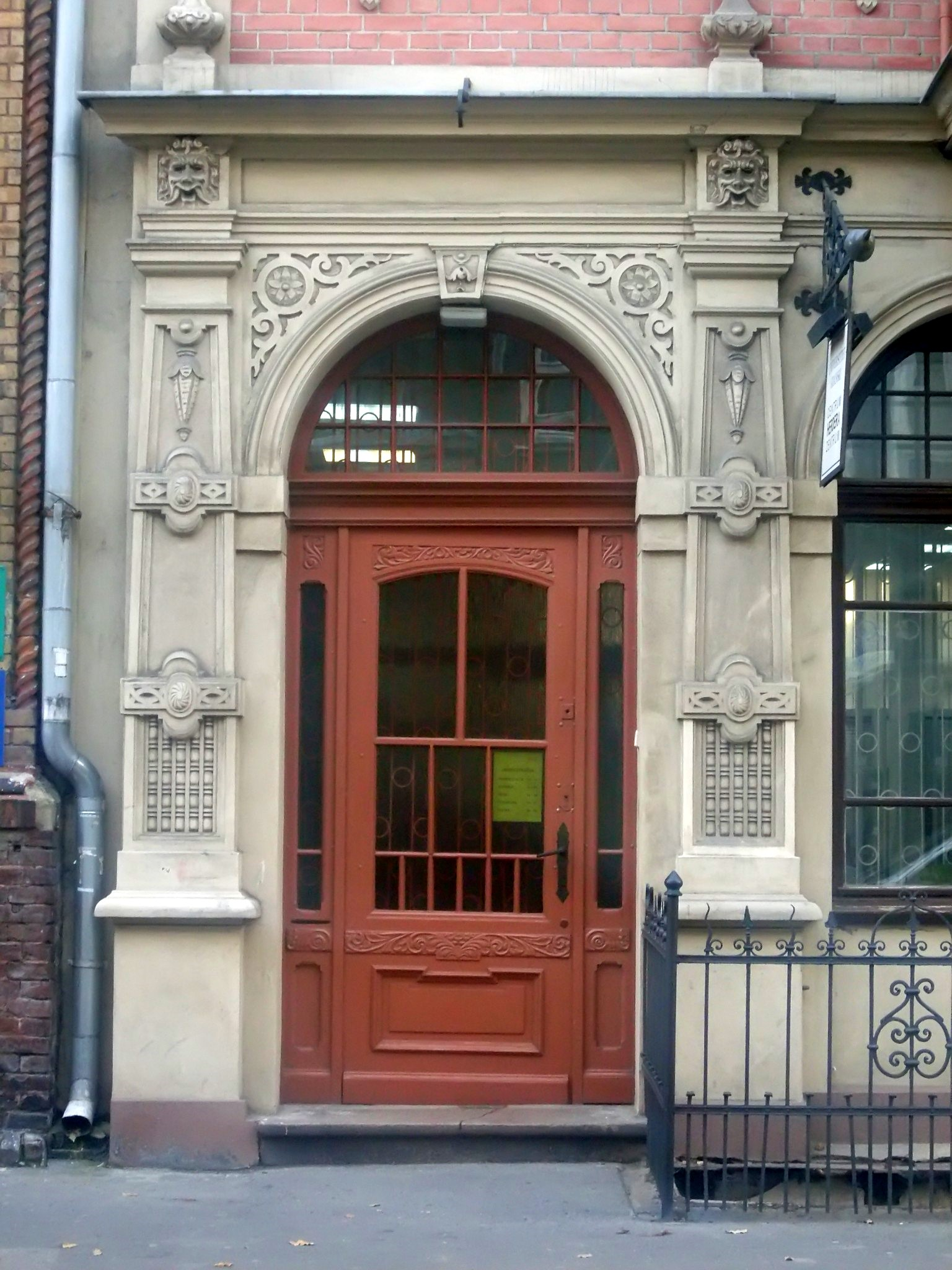 Artistic door and portal of Herder's Centre in Gdańsk.